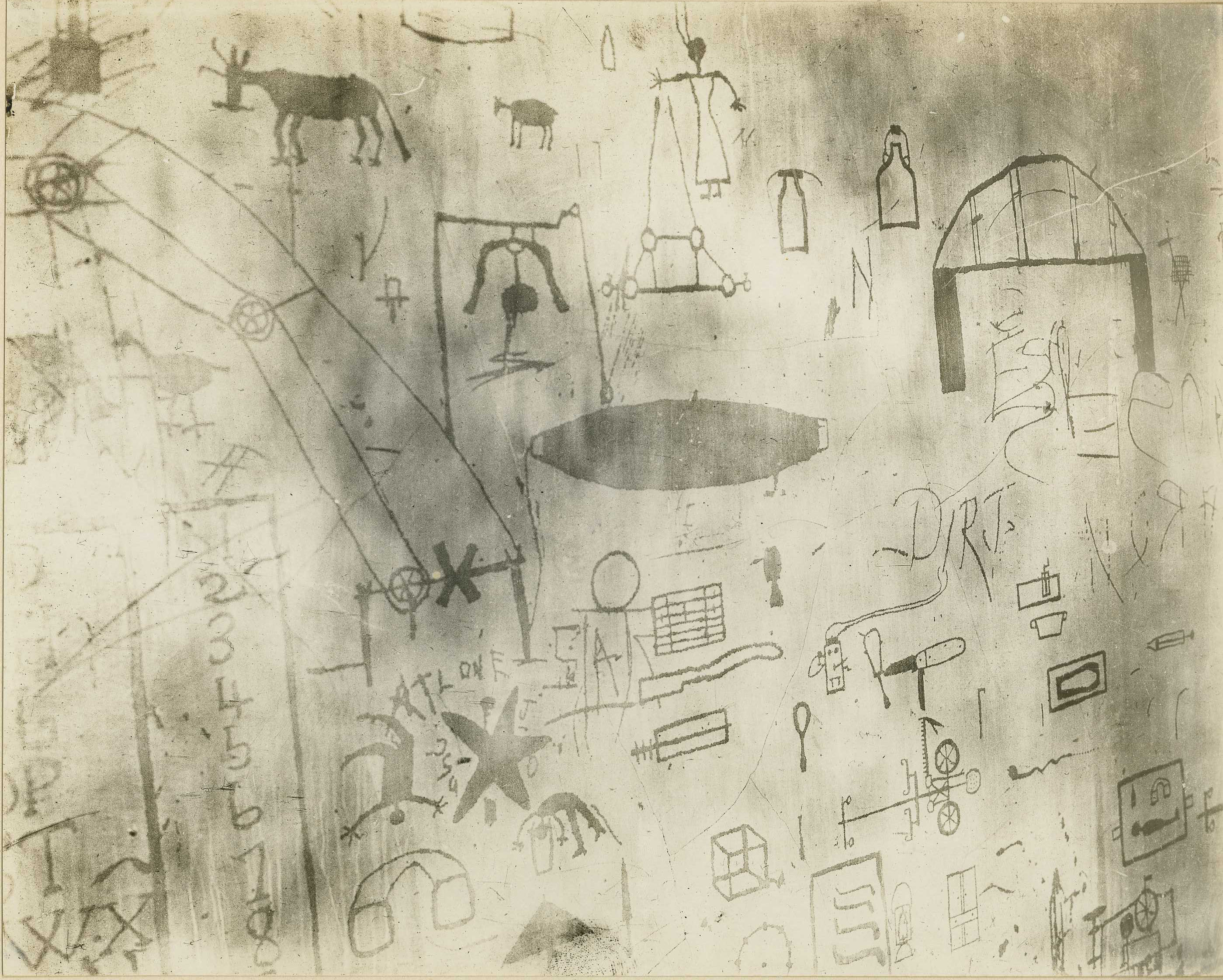 St. Elizabeth's Hospital. Wall of room in Ward Retreat 1. Reproductions made by a patient, a disturbed case of dementia praecox; pin or fingernail used to scratch paint from wall, top coat of paint buff color, superimposed upon a brick red coat of paint. Pictures symbolize events in patient's past life and represent a mild state of mental regression. Undated, but likely early 20th century. Selected by Kathleen.